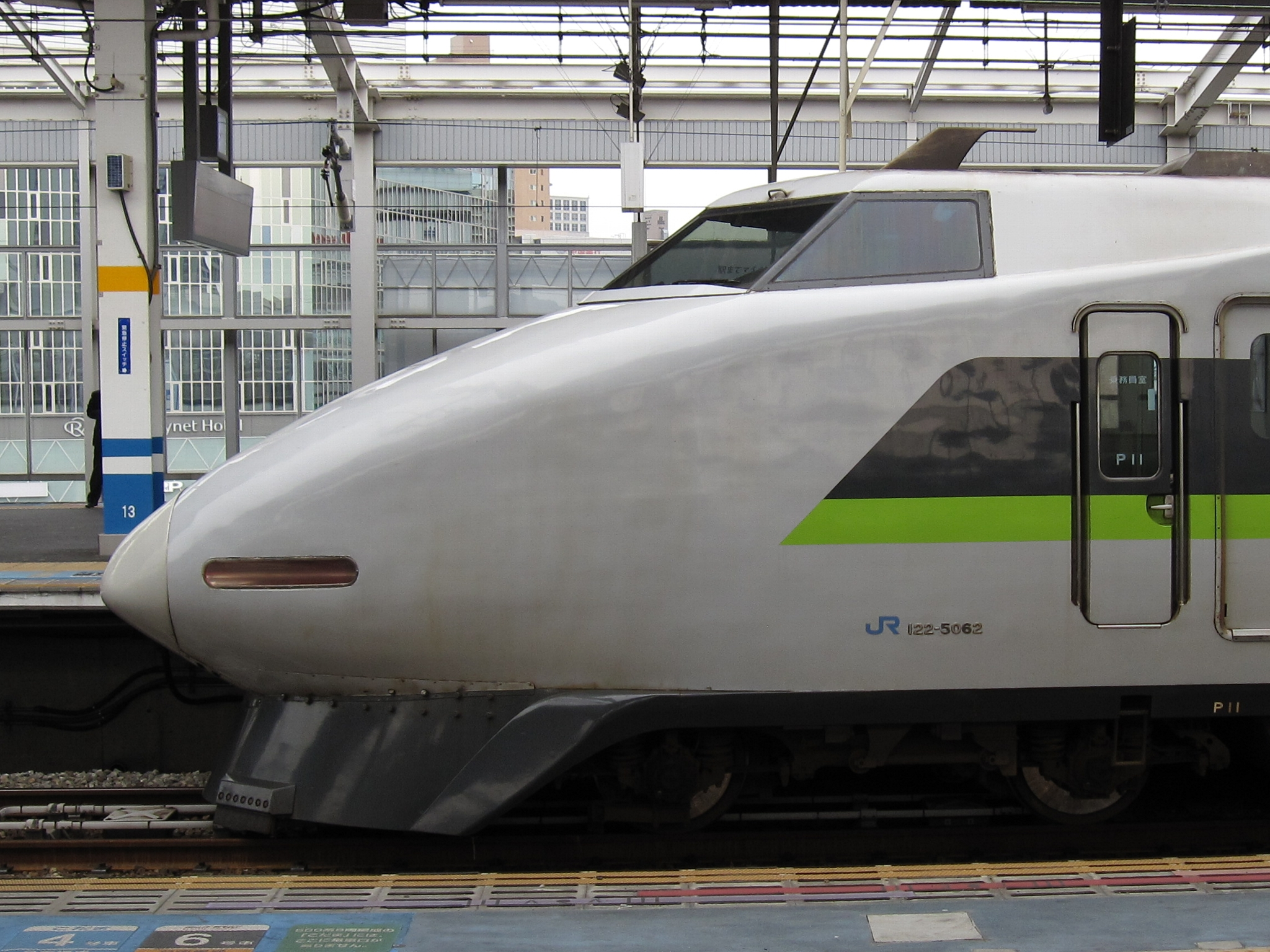 Shinkansen series 100(122-5062) at Okayama Station